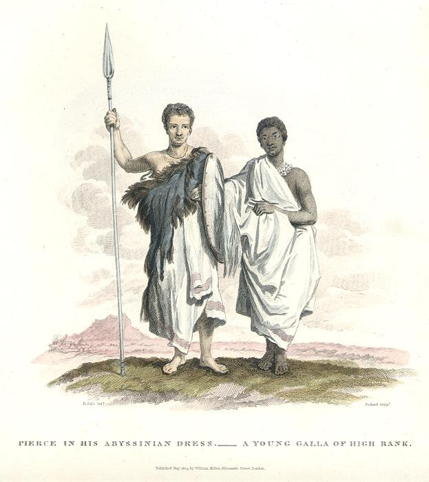 Nathaniel Pearce in his Abyssinian Dress. A Young Galla of High Ran